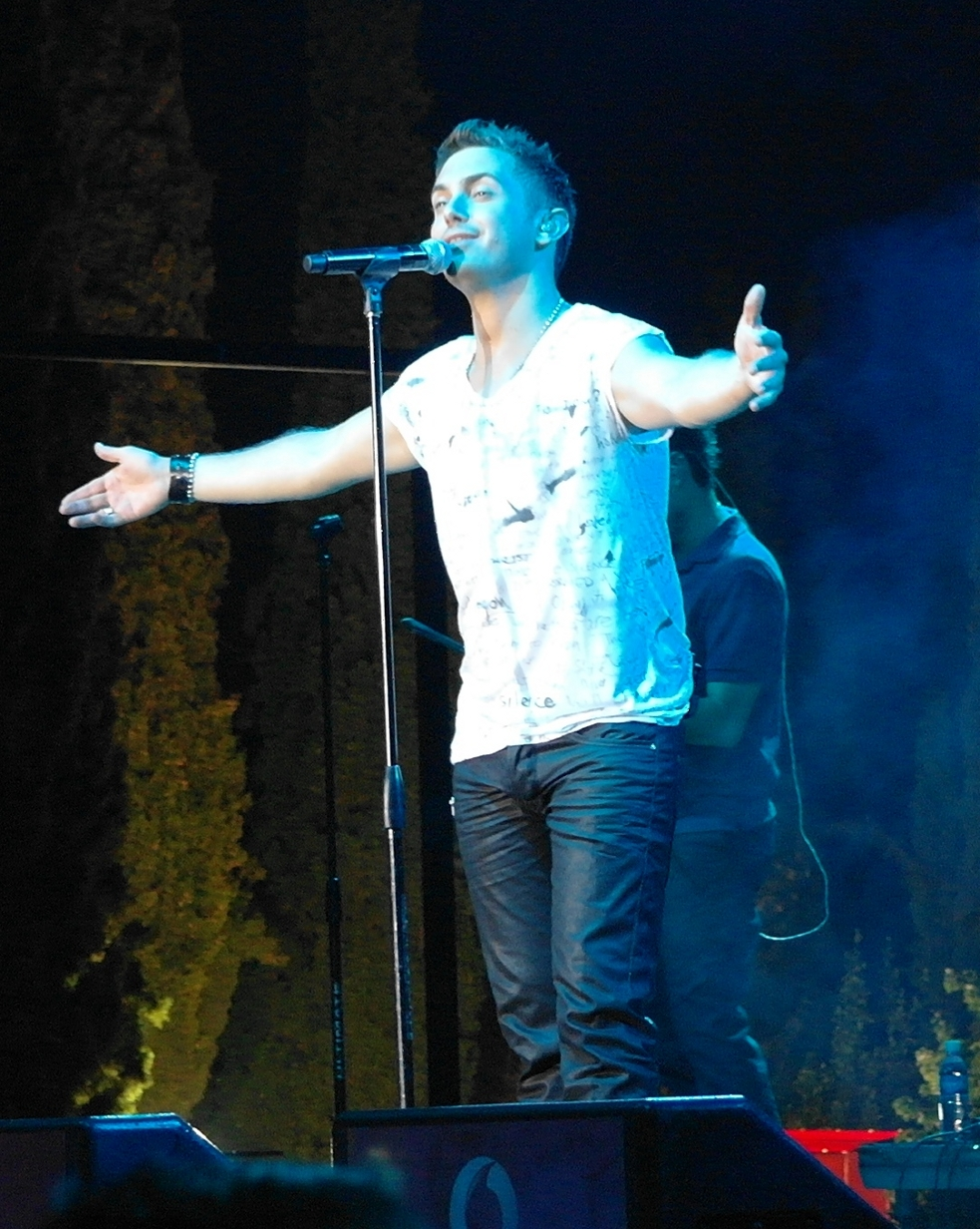 Mihalis Hatzigiannis, Theatro Dasous, Thessaloniki